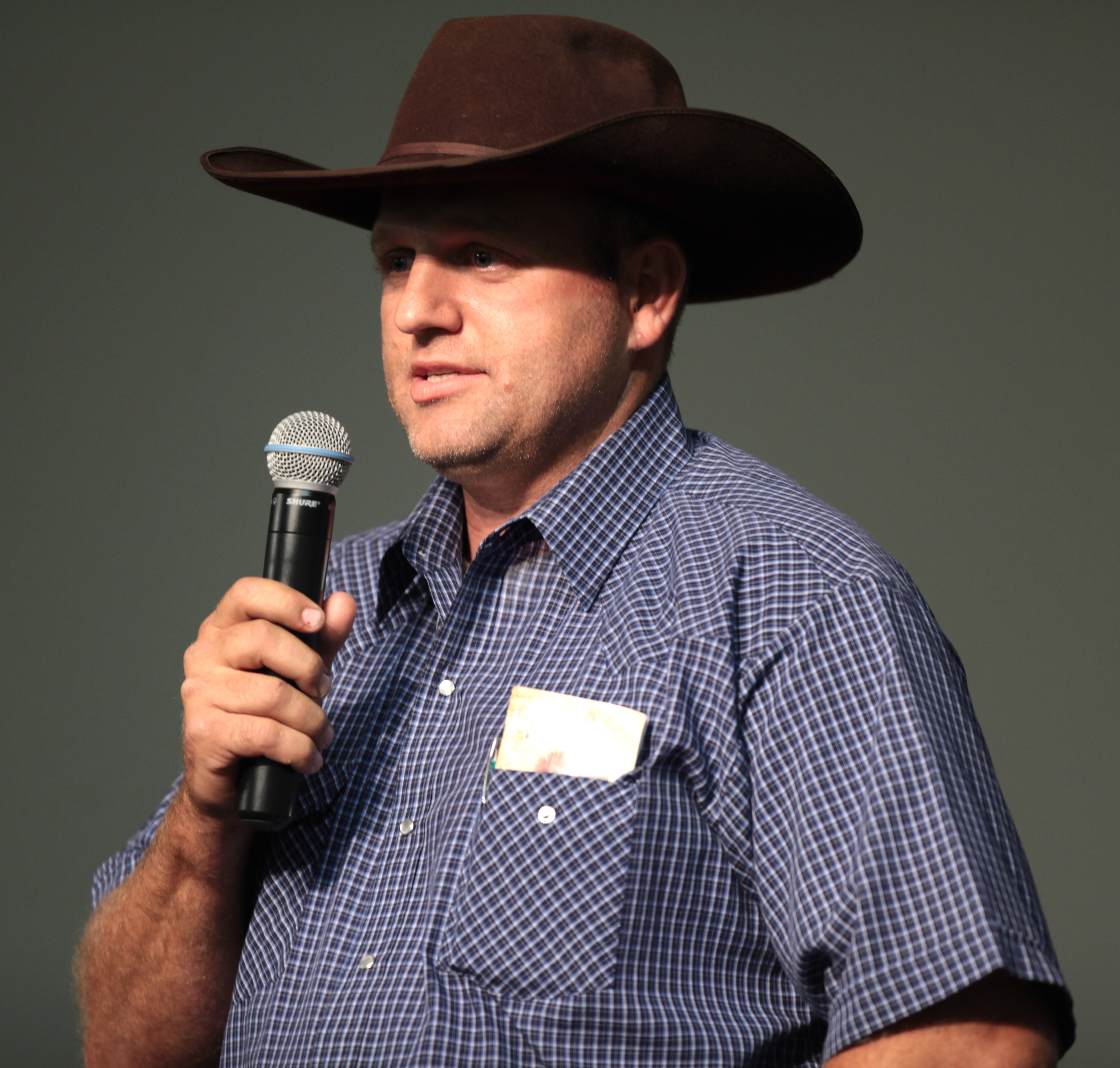 Ammon Bundy speaking at a forum hosted by the American Academy for Constitutional Education (AAFCE) at the Burke Basic School in Mesa, Arizona.